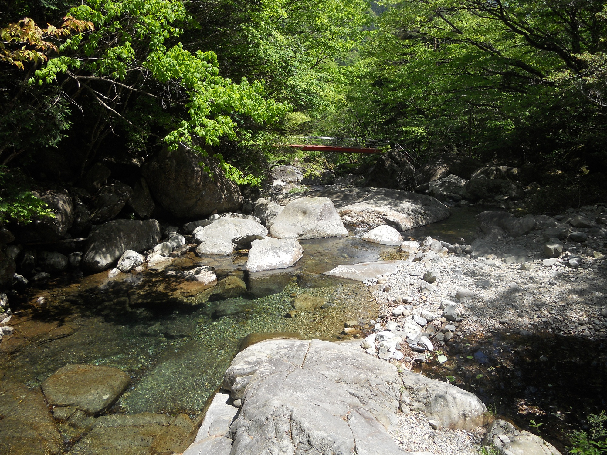 Kataji mountain-stream, Gifu prefecture, Japan